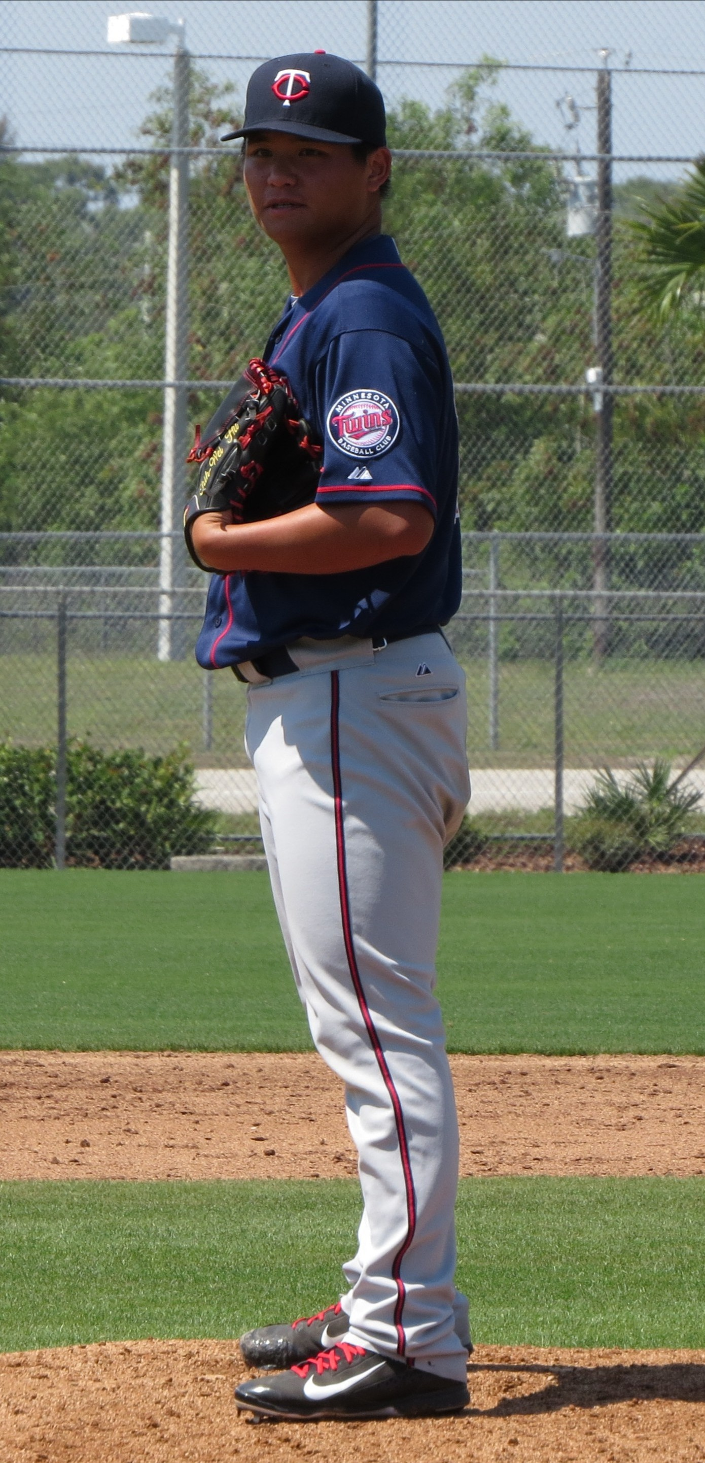 Chih-Wei Hu pitching for the Minnesota Twins in 2015